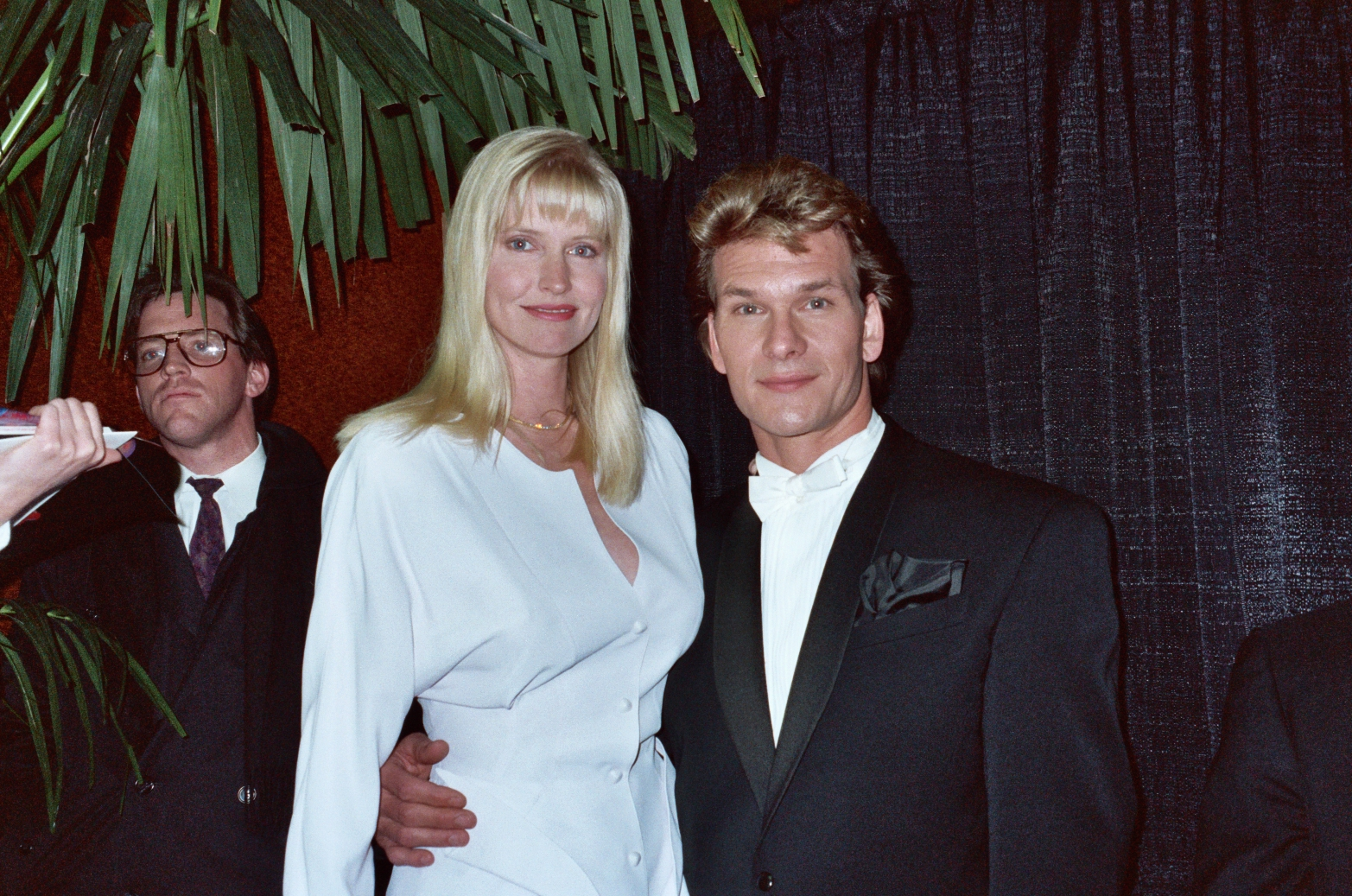 Patrick Swayze and his wife Lisa Niemi at the 1990 Grammy Awards. Scanned from the original 35MM film negative.